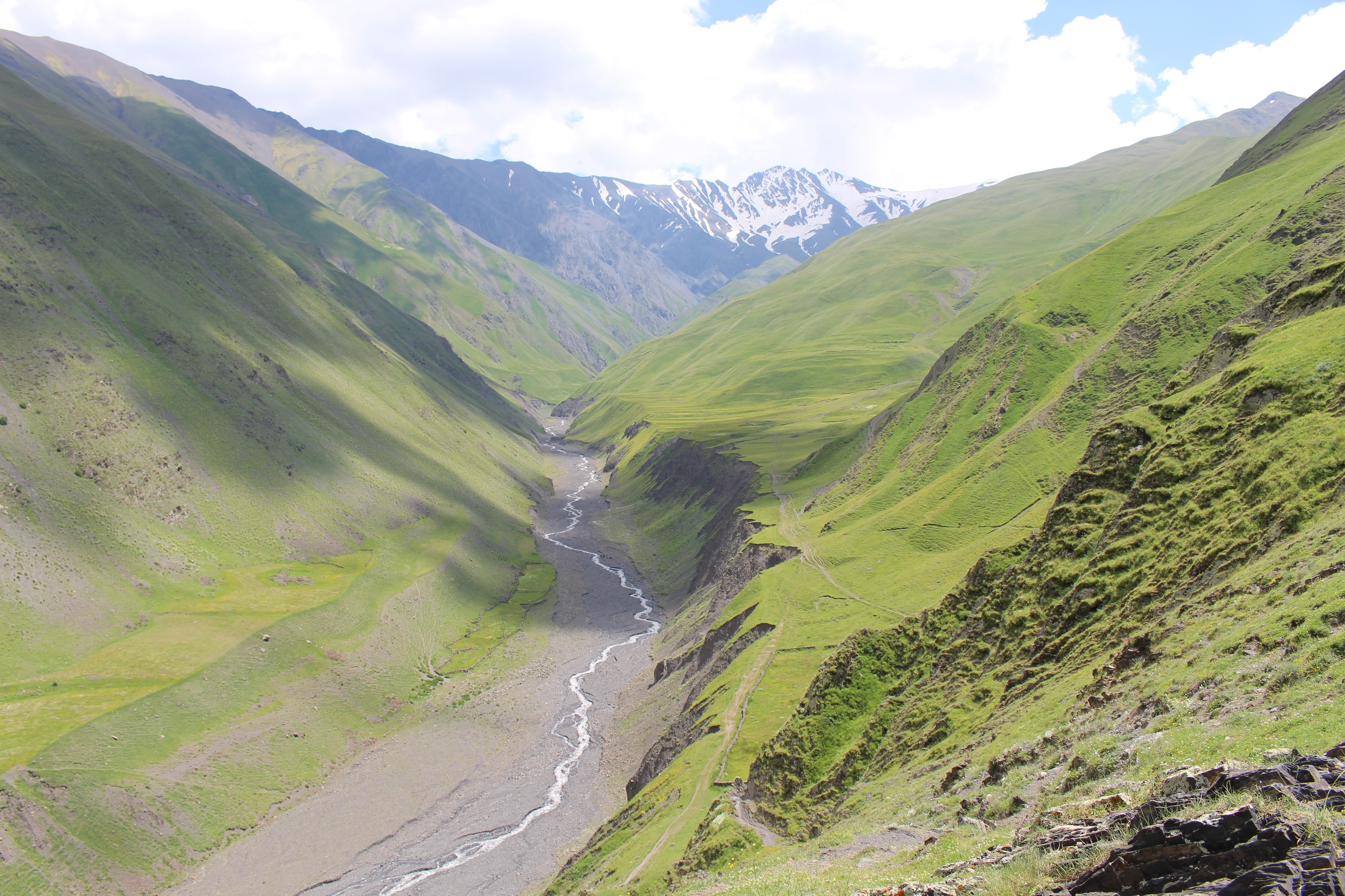 View of the mount of Malcamud in Southern Dagestan and Northern Azerbaijan, and locality to the north of the peak.